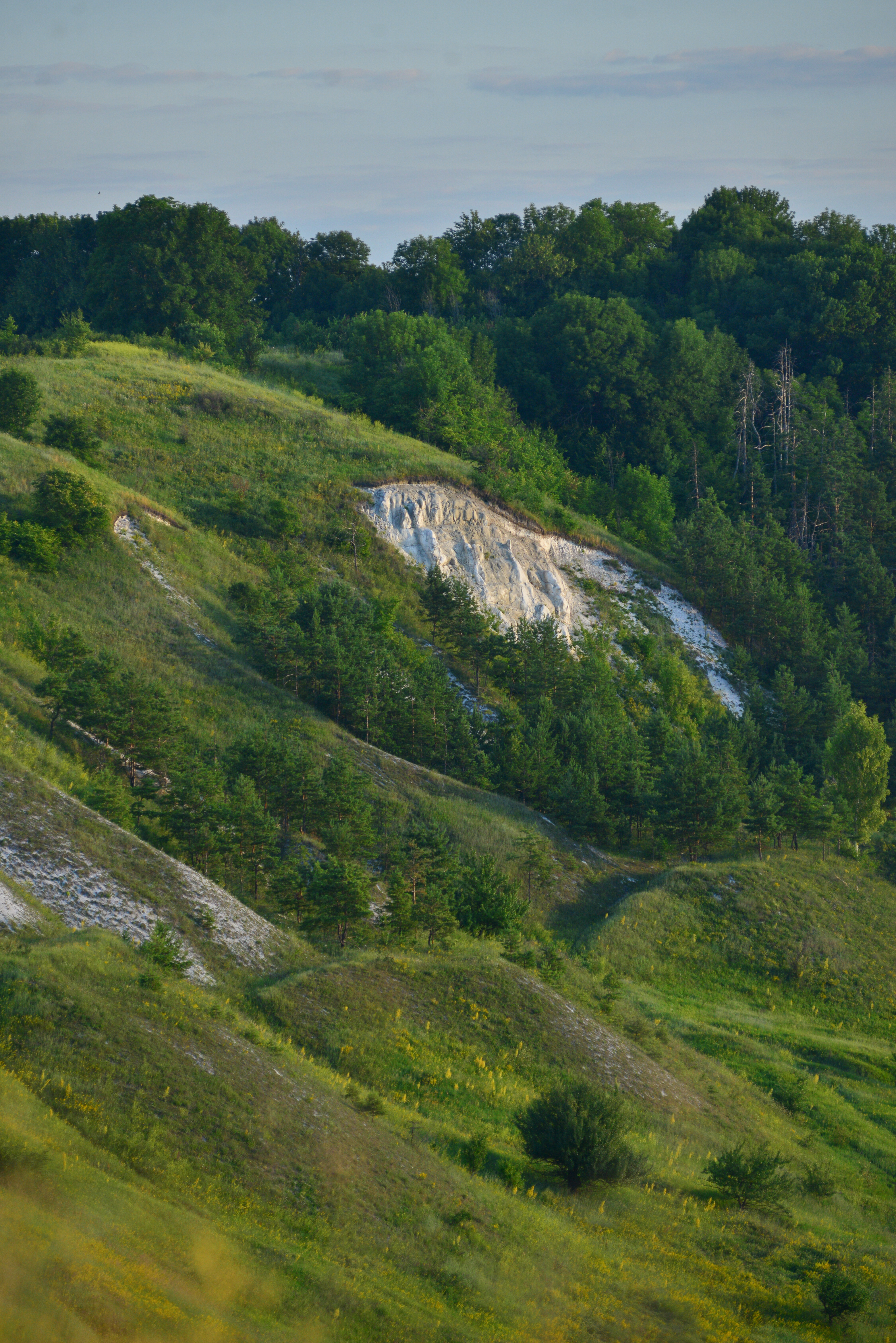 Krapivnoe1